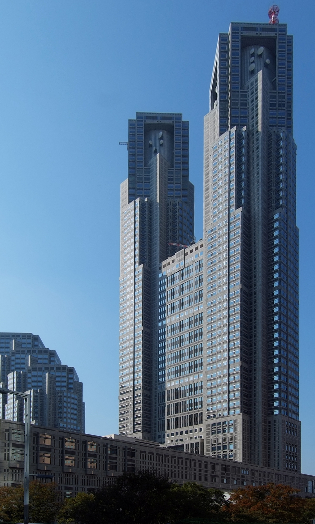 The Tokyo Metropolitan Government Building 1. Shinjuku, Tokyo. This building was designed by Kenzo Tange in 1991